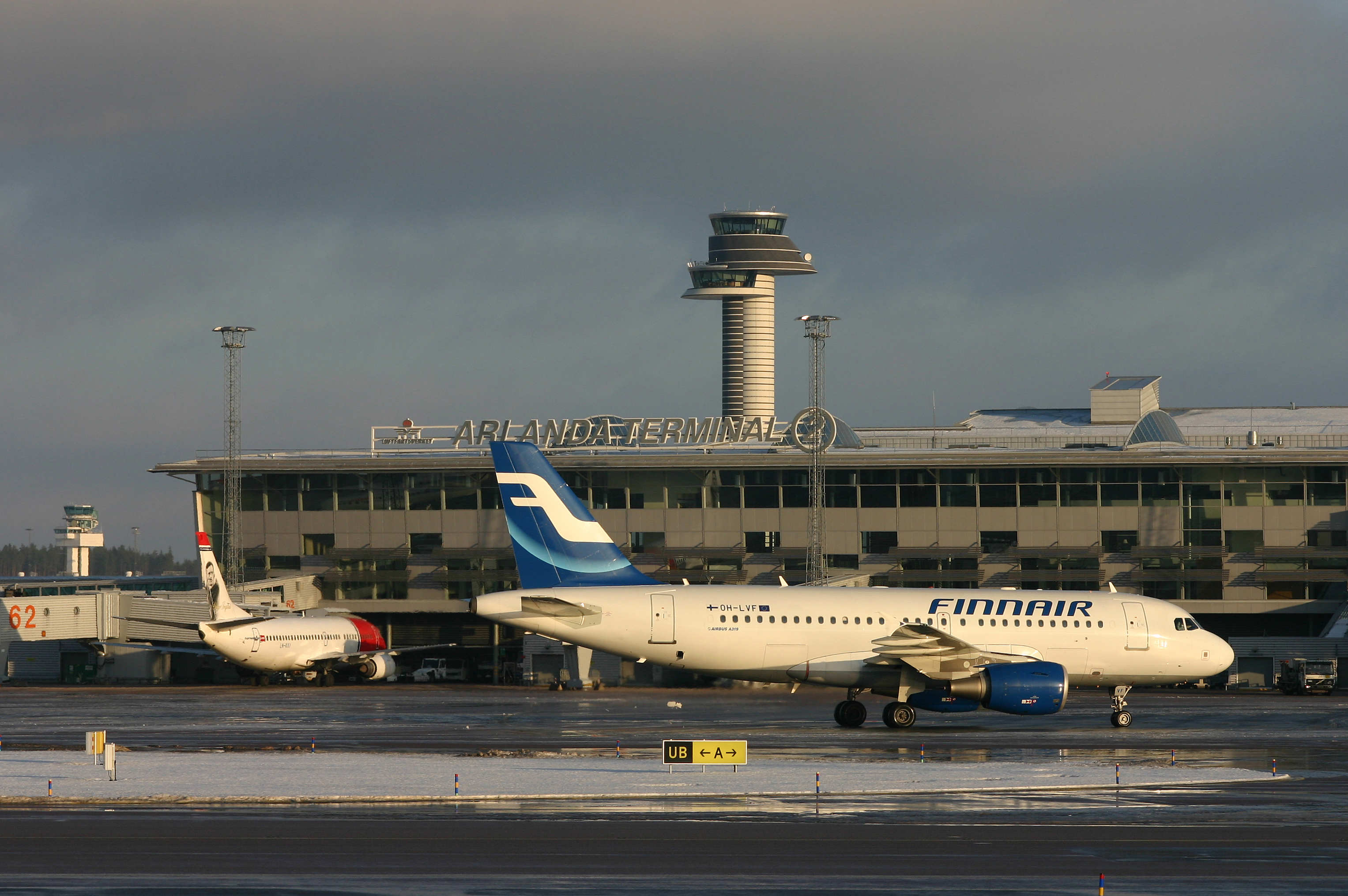 Stockholm Arlanda International Airport Terminal 2 with the Air Traffic Control Tower shown in background